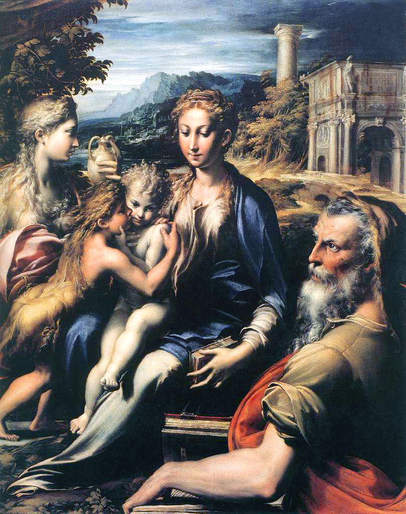 Madonna and Child with Saints